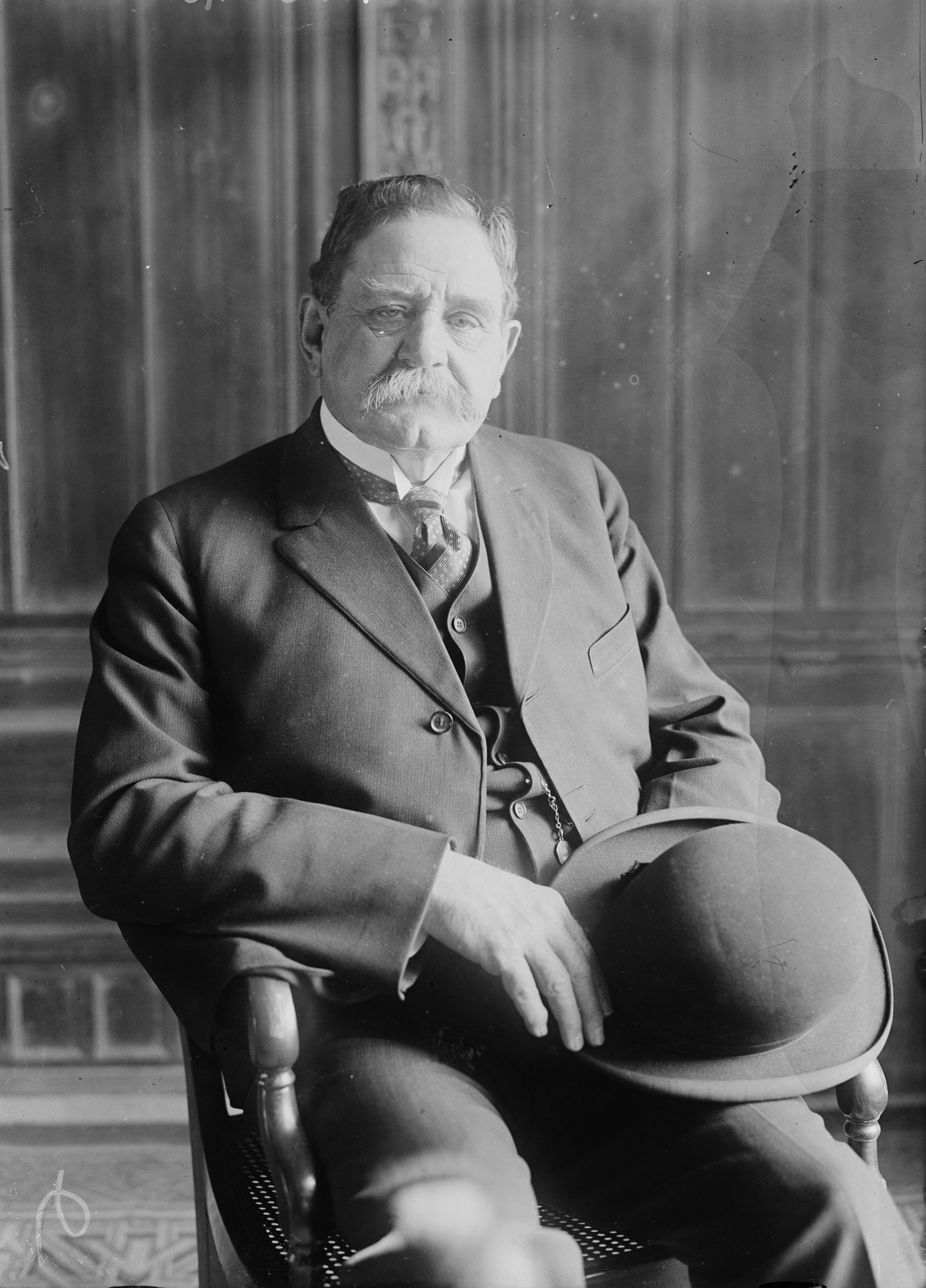 Jacob M. Dickinson (1851–1928)